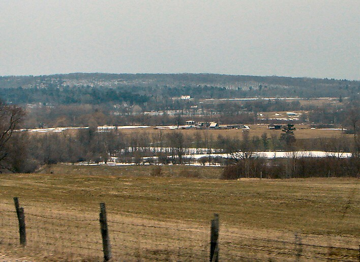 Countryside in Mansfield-et-Pontefract, Quebec, Canada